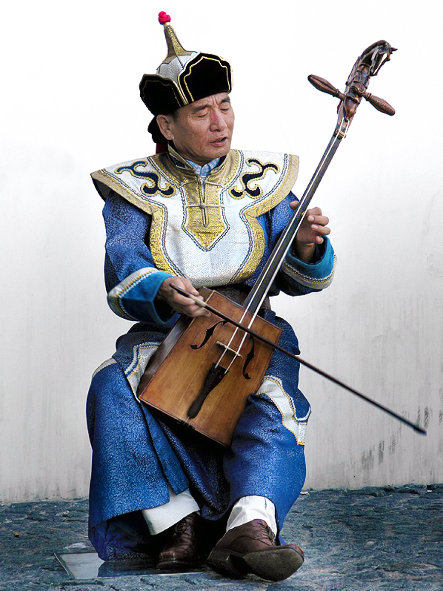 Sambuugiin Pürevjav of Altai Khairkhan (an overtone singing ensemble from Mongolia) playing a morin khuur near Centre Georges Pompidou in 2005. Author : Eric Pouhier Date : October 2005